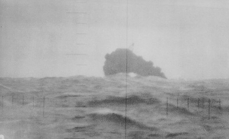 The sinking of the japanese aircraft carrier Unryu, the photo was taken by the commander of the submarine Redfish through the periscope.